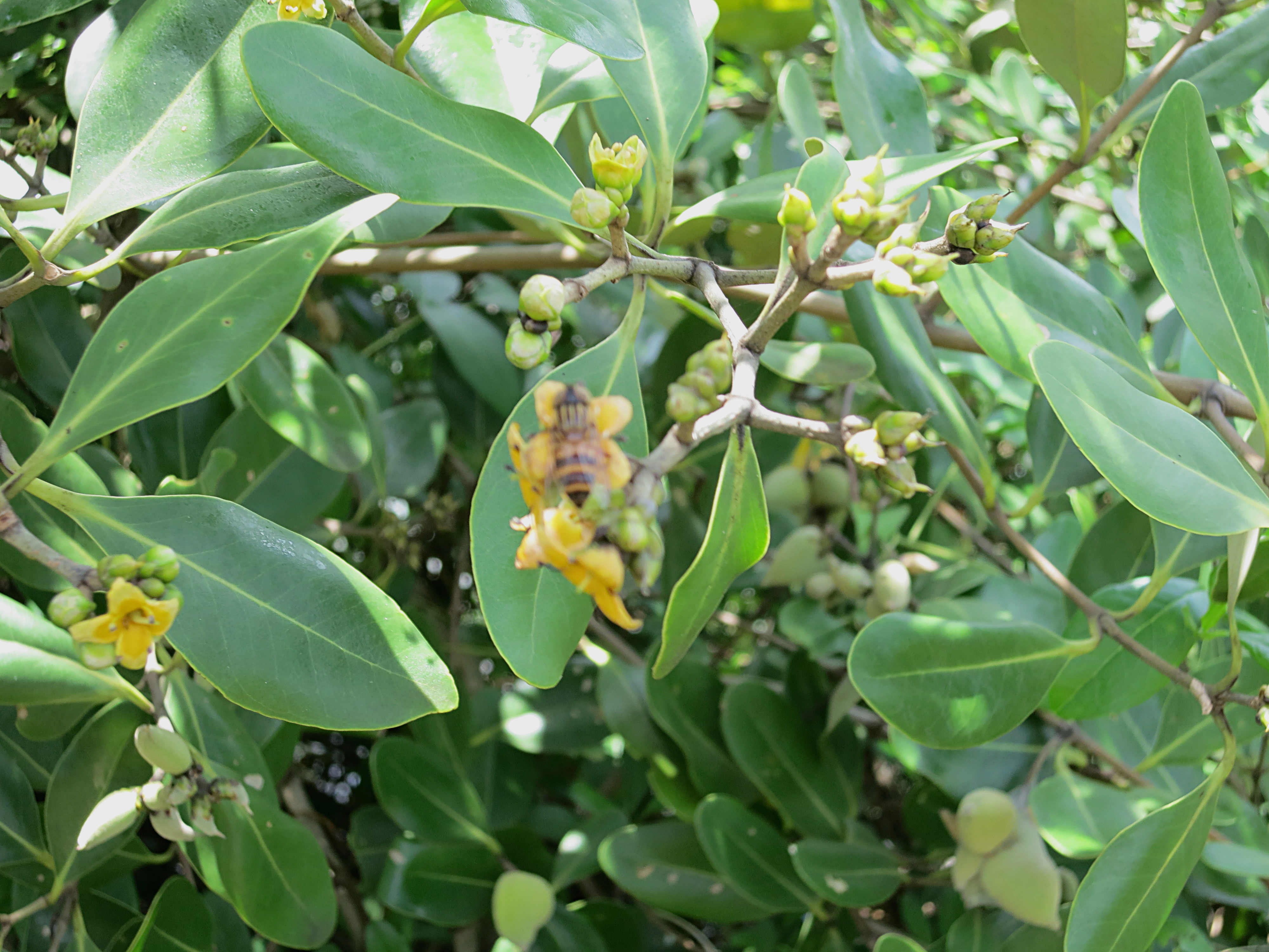 Avicennia officinalis is a species of mangrove